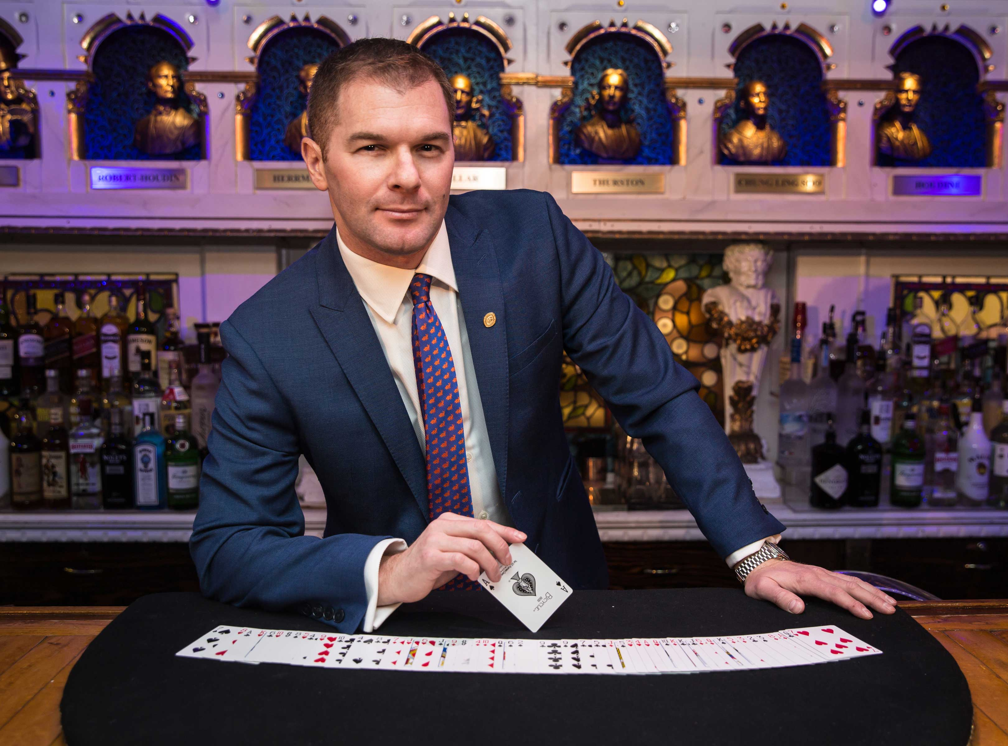 Michael Gutenplan's magician headshot